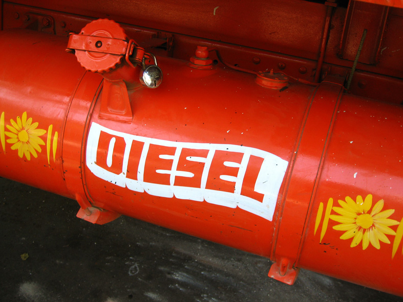 A red tank of diesel fuel on a truck in Bombay, India.